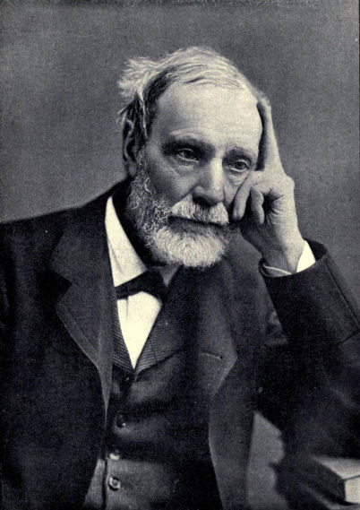 Arthur Hobhouse, 1st Baron Hobhouse circa 1902 aged 83